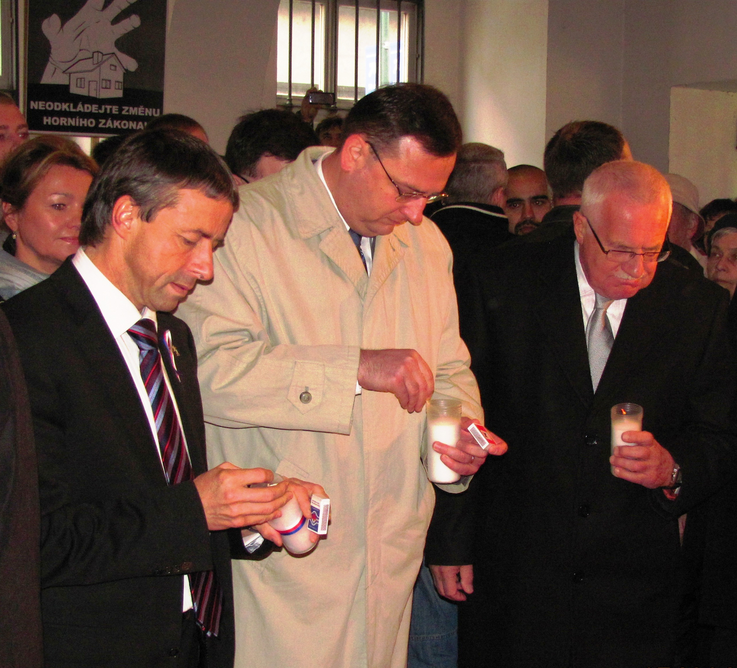 Pavel Bém, Mayor of Prague, Petr Nečas, Prime Minister and Václav Klaus, President of the Czech Republic at Velvet Revolution Memorial (Národní Street, Prague) in 2010